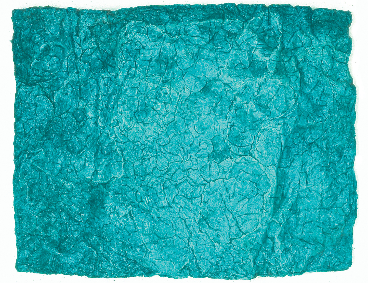 Blue Baby, 1981, acrylic paint mounted on wire, 28" x 40" x 3", Wall Relief by Stephanie Bernheim